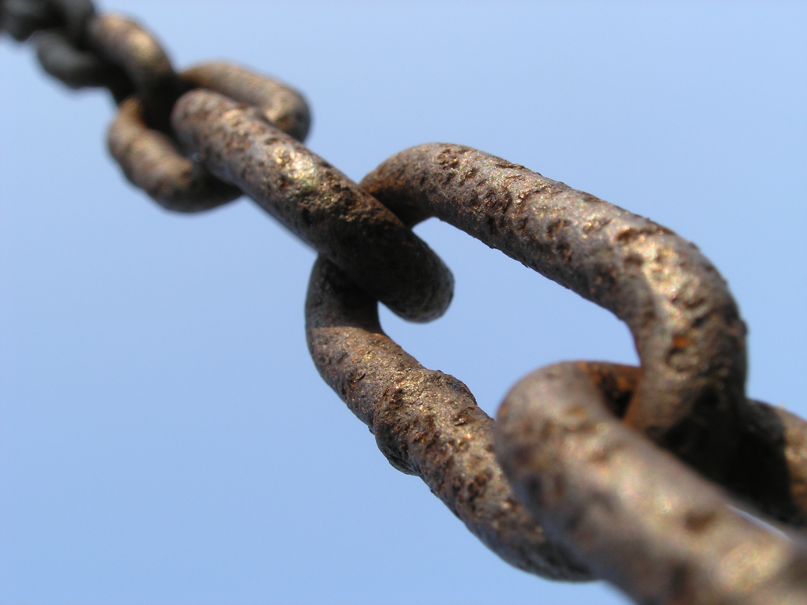 Section of a rusty chain.